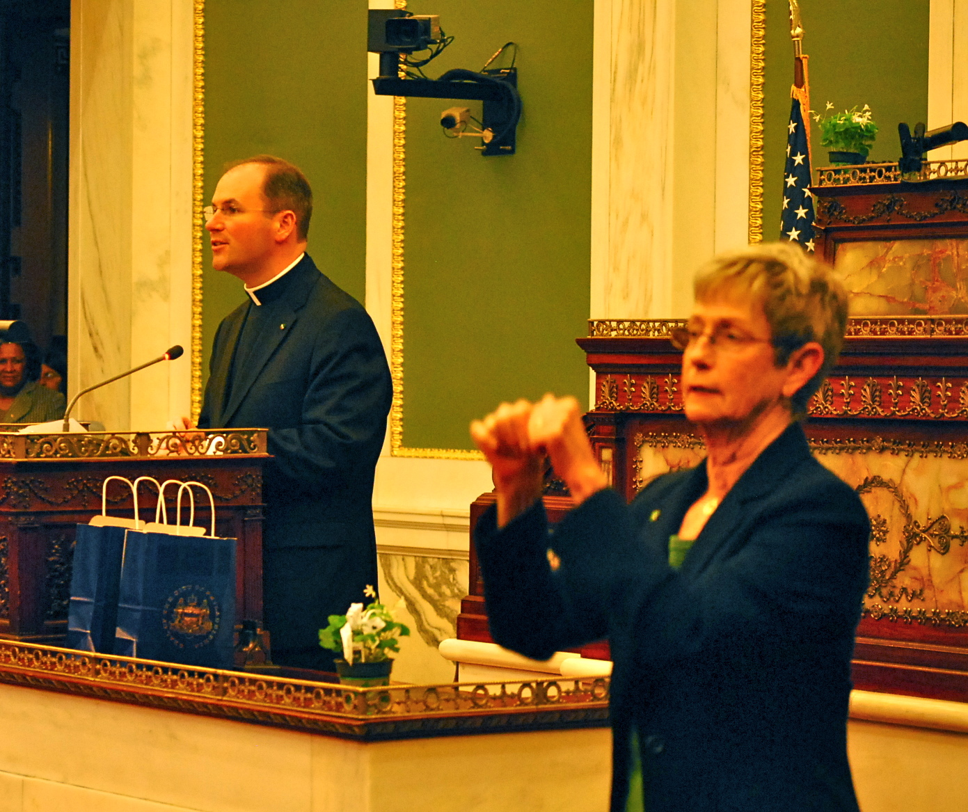 Father Kevin Gallagher, chaplain of the St. Patrick's Day Parade association, says the blessing before the meeting, which was translated into American sign language.